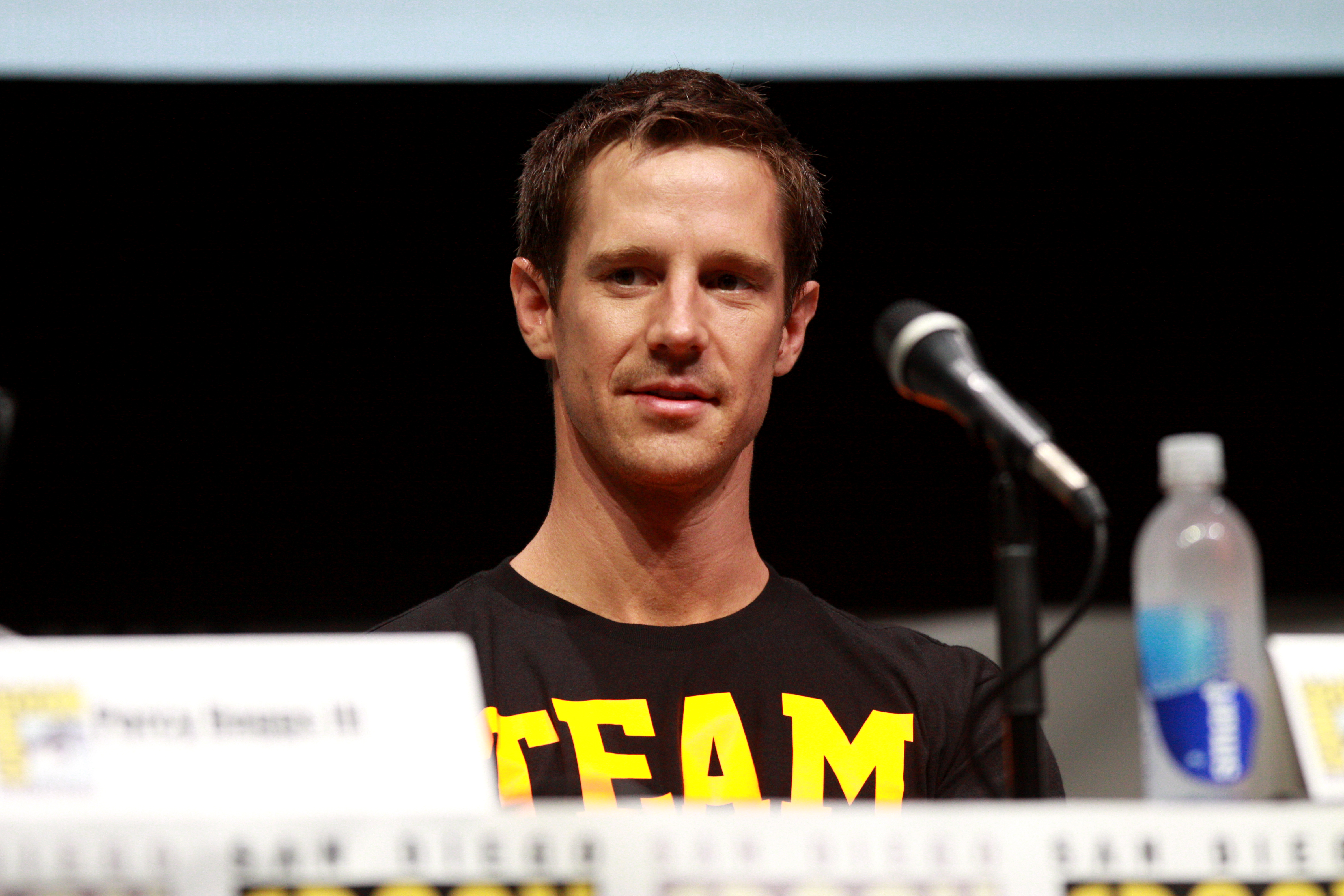 Jason Dohring speaking at the 2013 San Diego Comic Con International, for "Veronica Mars", at the San Diego Convention Center in San Diego, California.